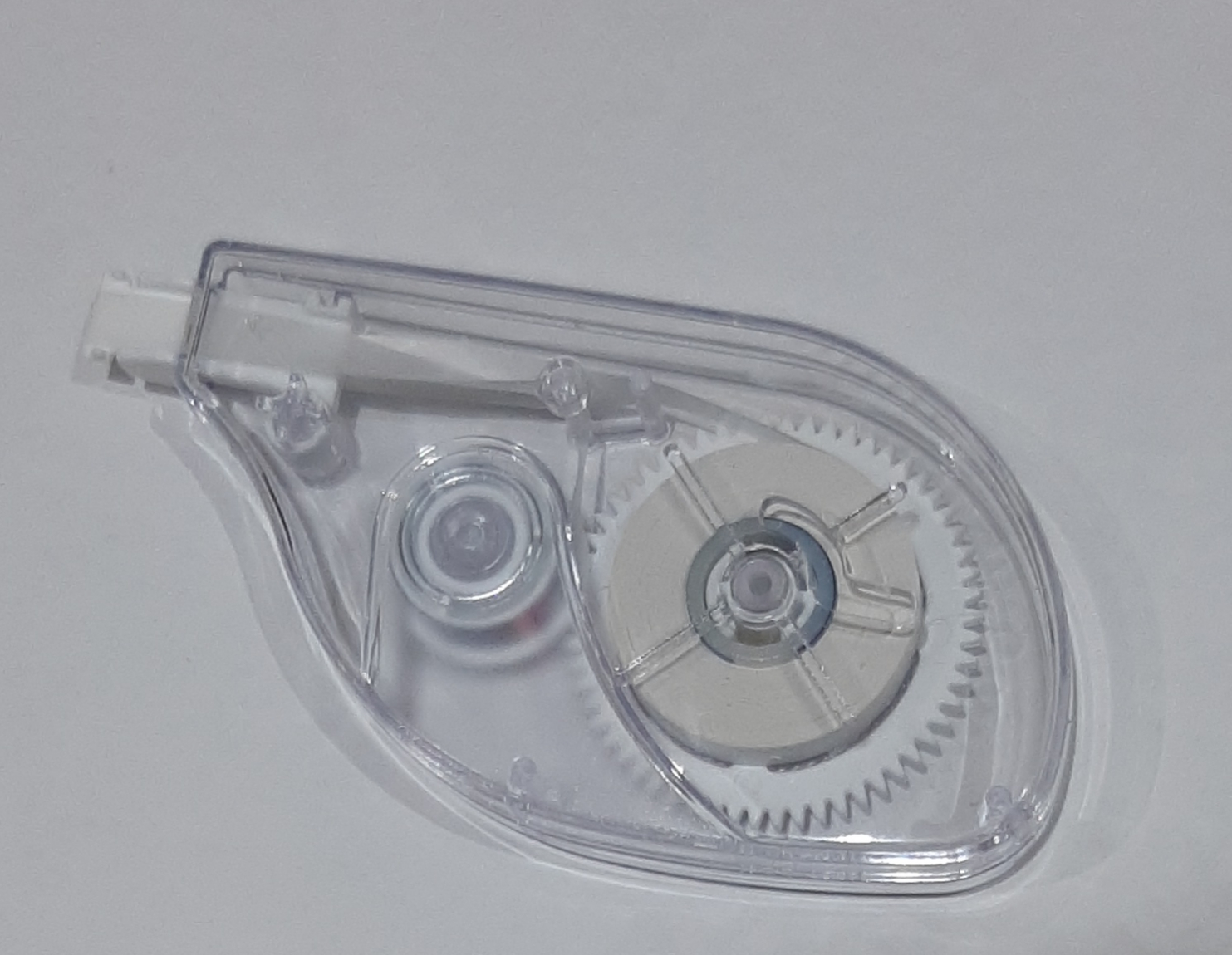 A clear plastic correction tape to be used by hand with diameter 5mm and length of 8 m.